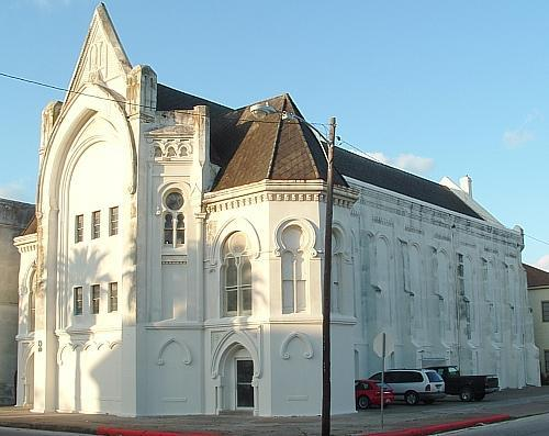 Galveston, Texas. 1870 Congregation B'nai Israel Temple. Taken by myself, nsaum75.